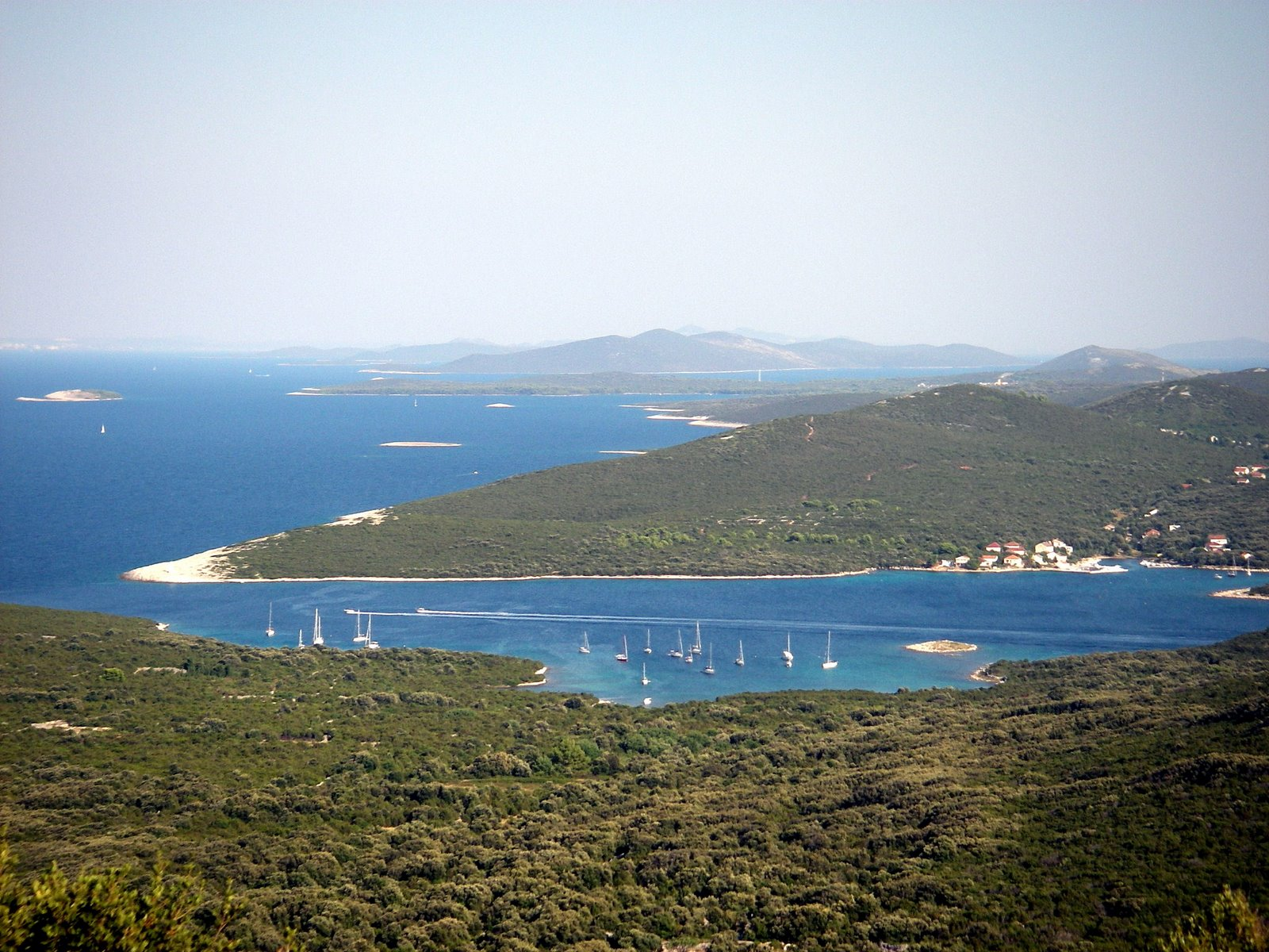 The southeast part of the island of Ist, and the view of the harbor Zapuntel (island Molat) and Strait Tisno.